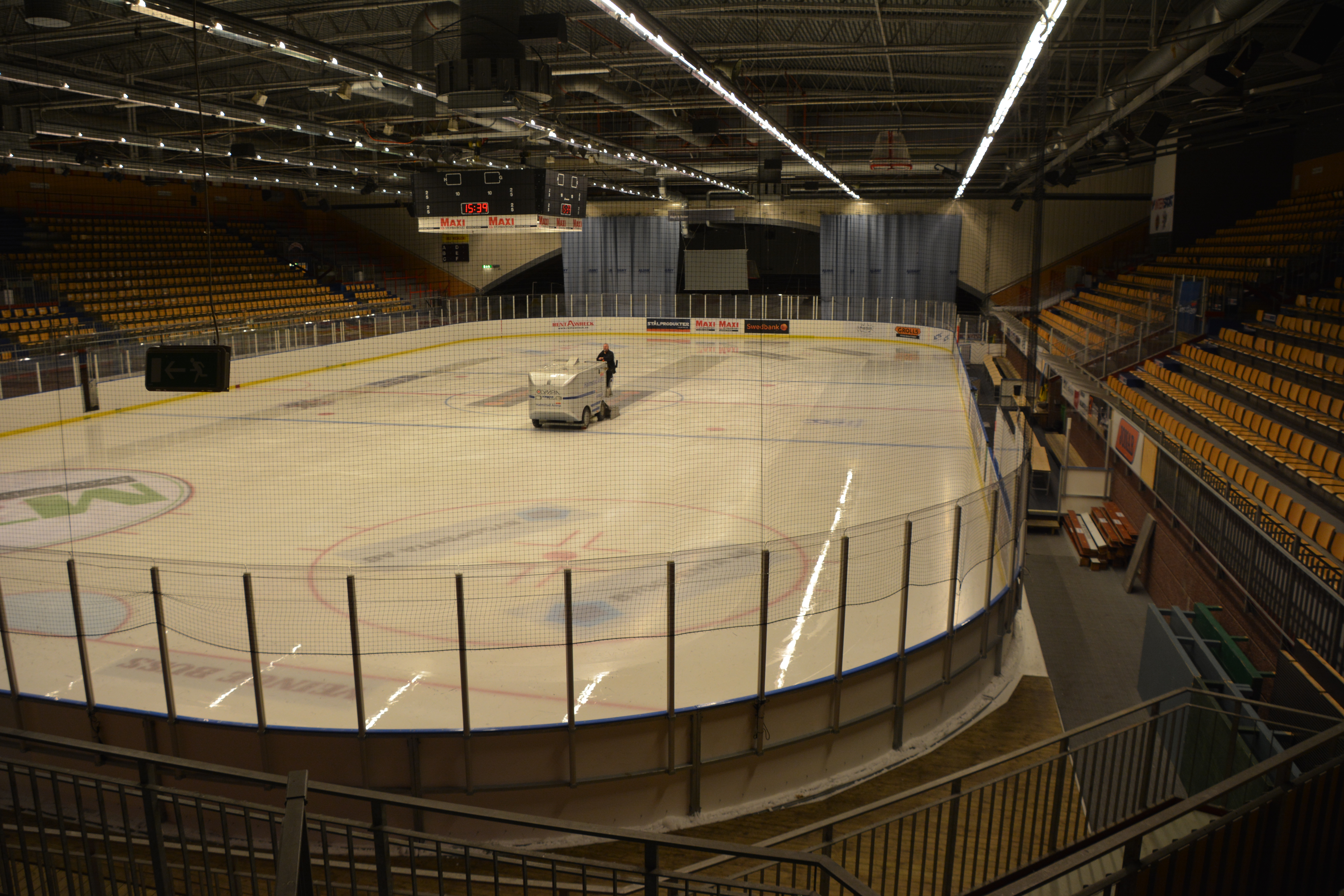 Den mindre ishallen i Halmstad Arena